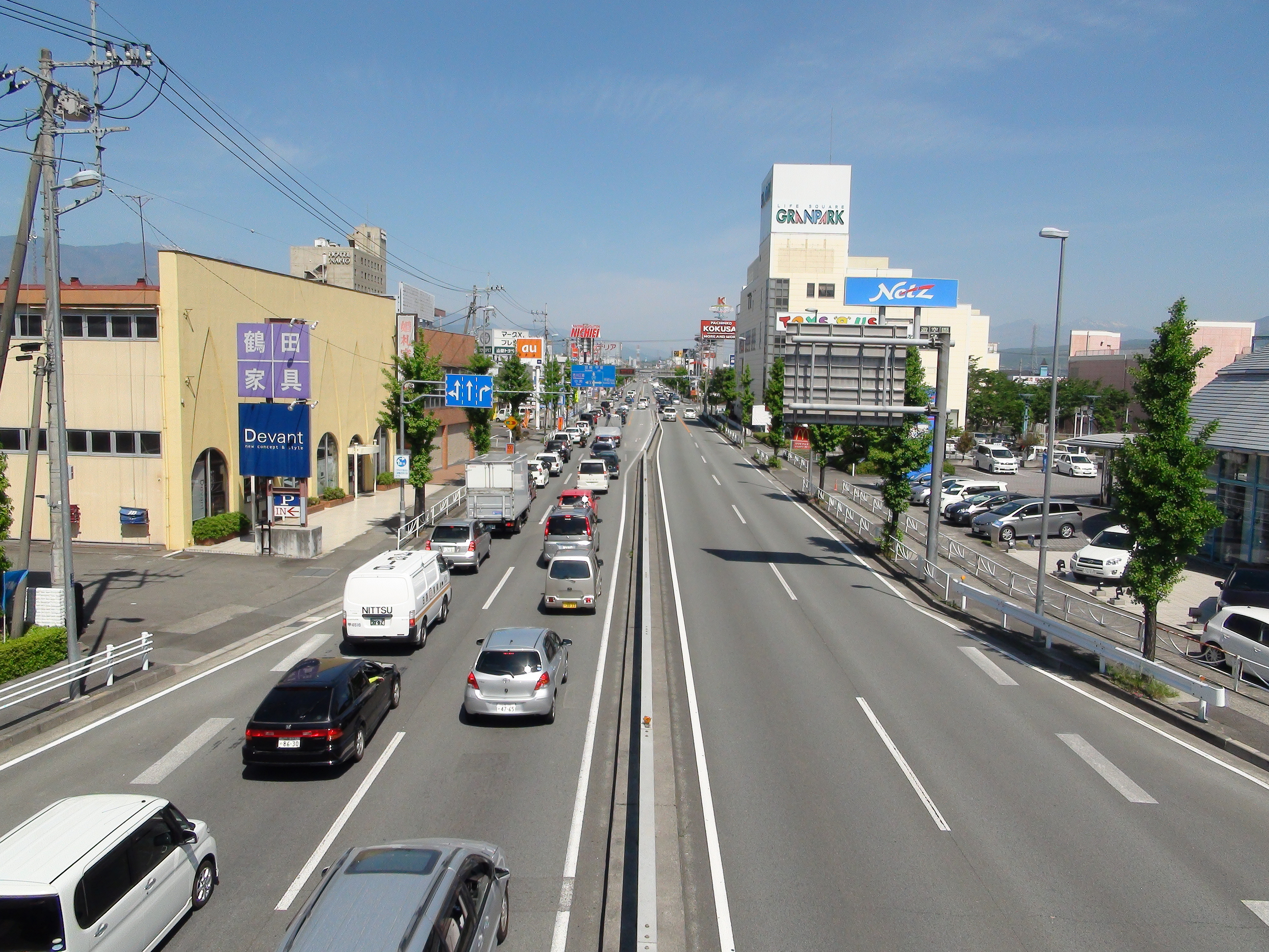 Japan National Rute 20 of the Kokubo, Koufu-city district